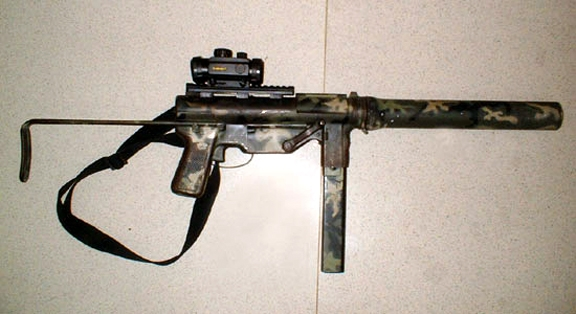 The Philippine Marine Corps (PMC) requisitioned the reserve stockpile of WWII-era M3 submachine guns from the Philippine Navy. They added Picatinny rails, integral suppressors, and Simmons red-dot optical sights, and modified the magazines to make them less likely to jam.